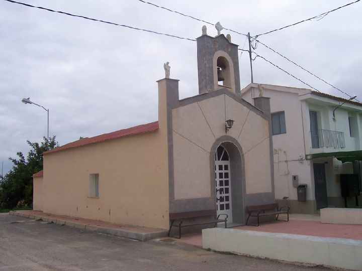 Iglesia de Santiago y Santa Ana